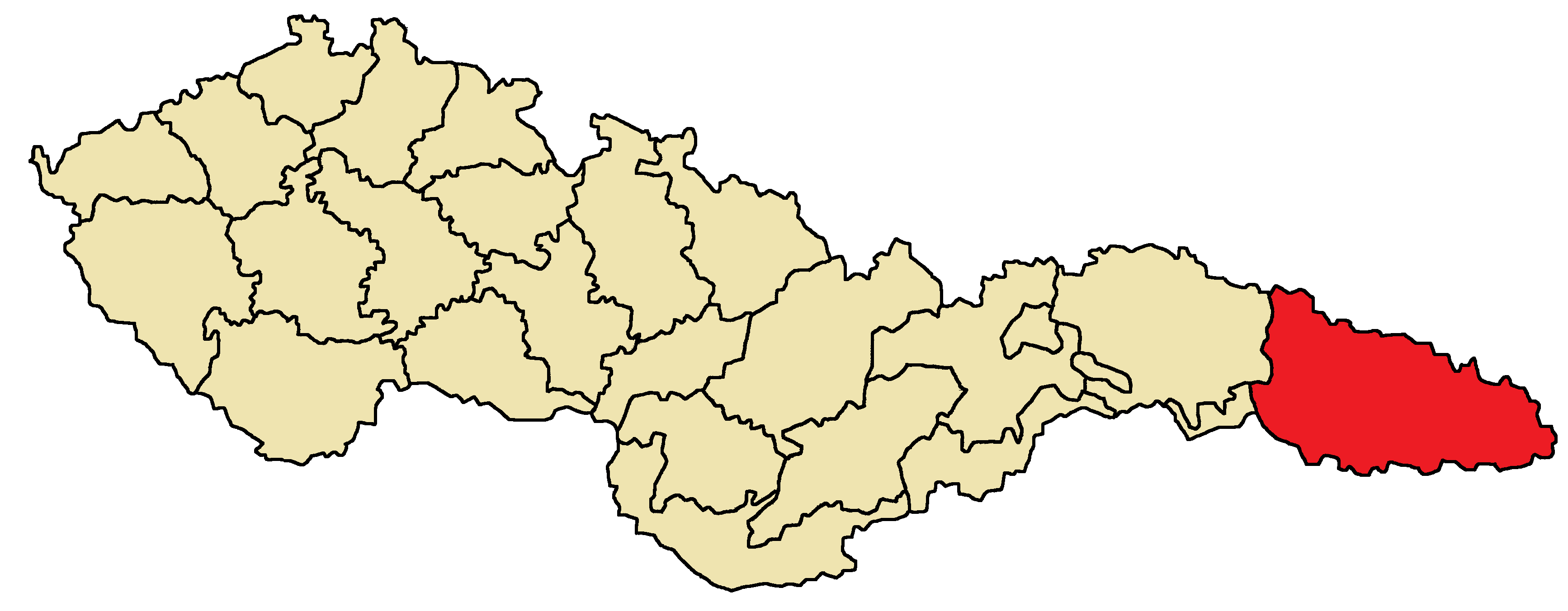 Electoral District used in 1925, 1929, 1935 elections for the Chamber of Deputies, Czechoslovakia